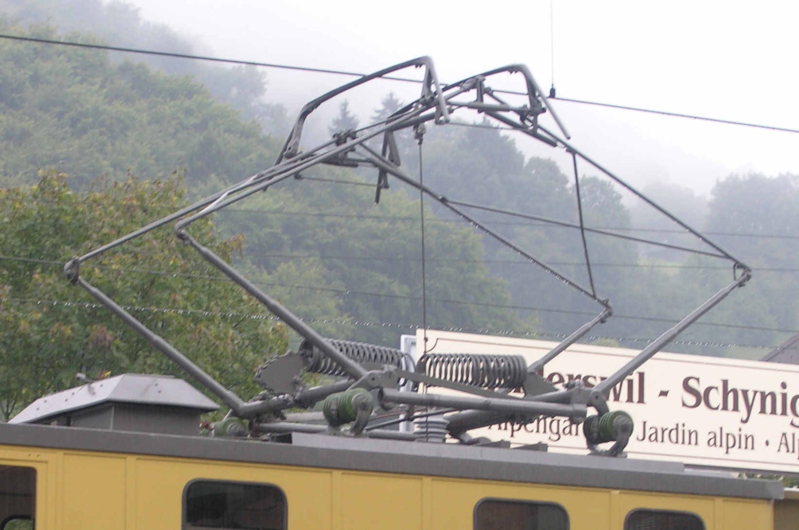 Pantograph of the Swiss-made locomotive from Schynige Platte mountain railway. Schynige Platte cogwheel railway loco Edelweiss, build in 1911, was still in service at 2007.